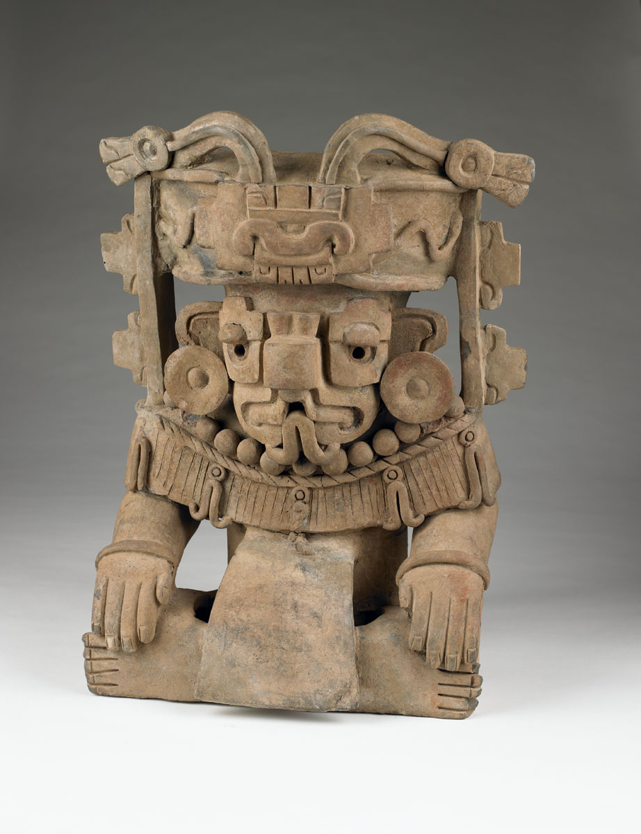 Urn representing the Zapotec god Cocijo (Cosijo), the God of Rain